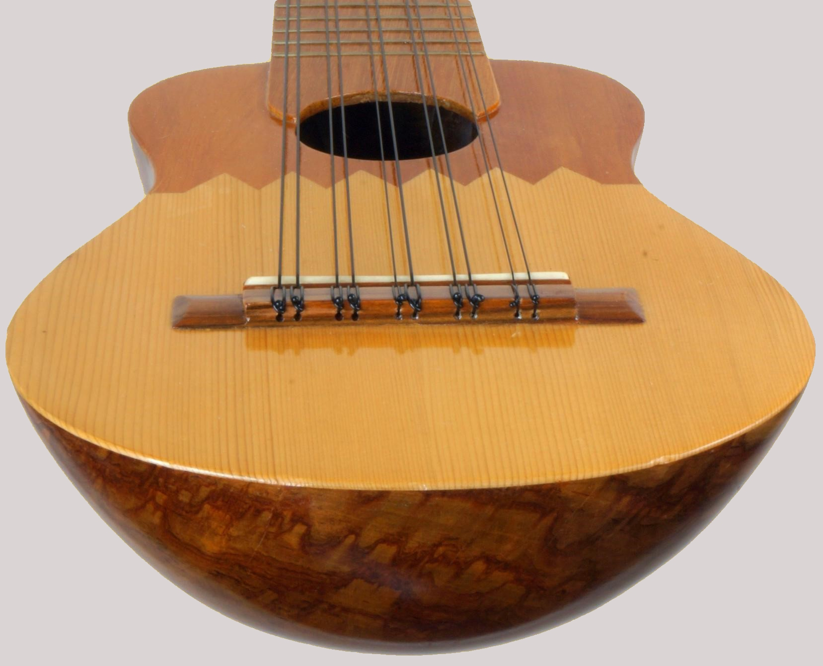 View of the bridge and base of an all wood "semi professional" Charango from Peru